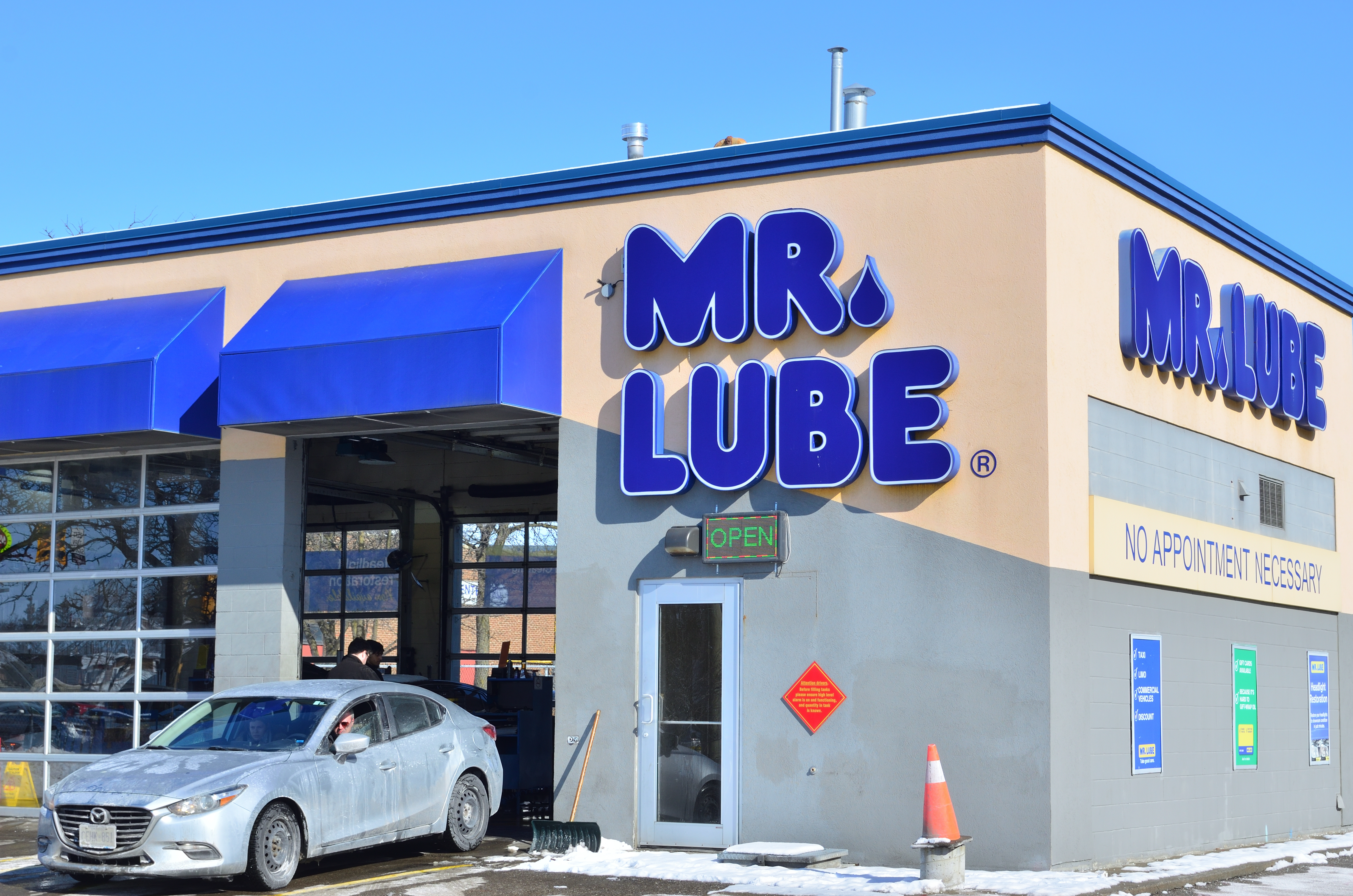 Mr. Lube - Address: 9699 Yonge St, Richmond Hill, ON L4C 1V7